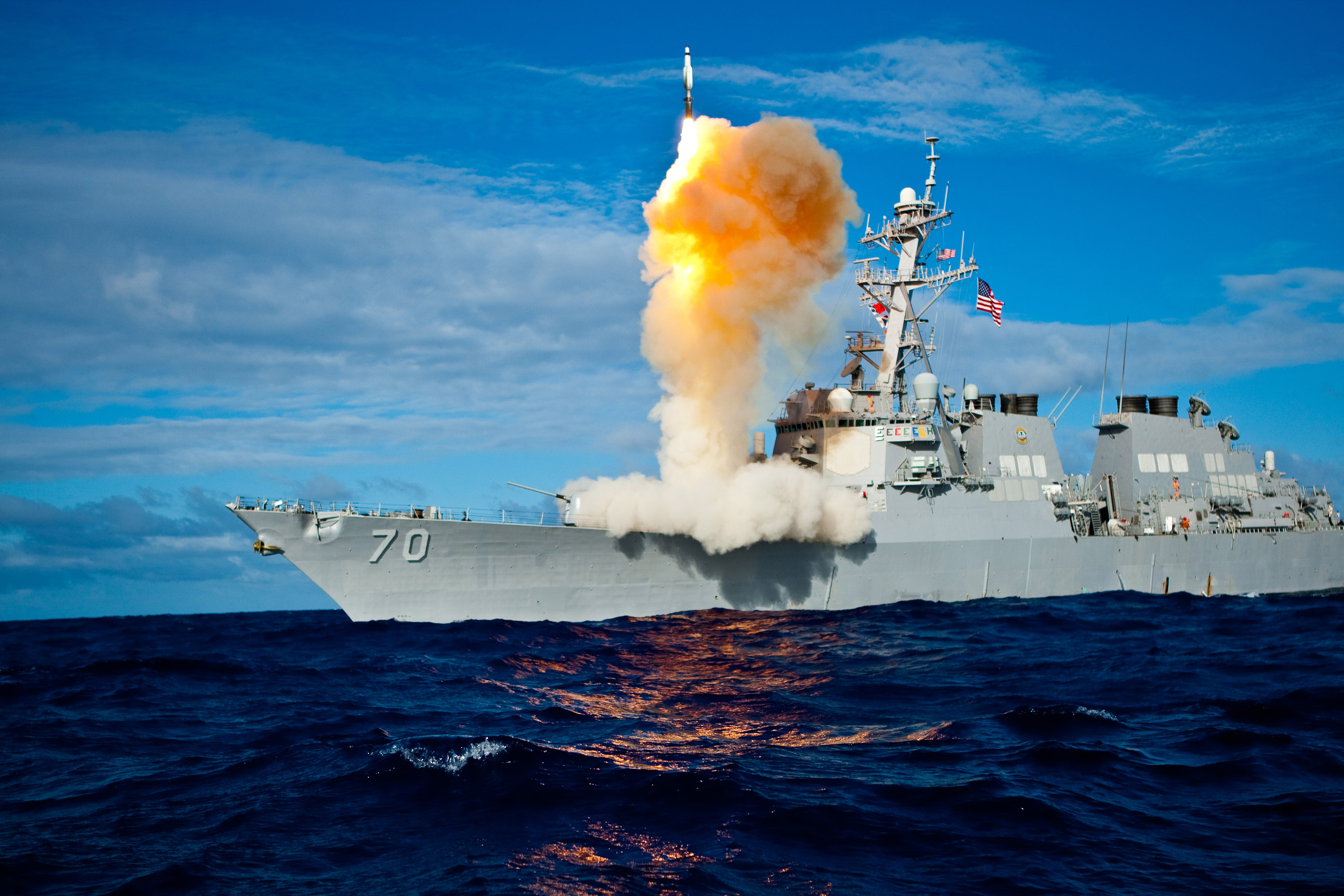 The destroyer USS Hopper (DDG 70) launches a Standard Missile-3 as it operates in the Pacific Ocean on July 30, 2009. The missile successfully intercepted a sub-scale, short-range ballistic missile launched from the Kauai Test Facility, Pacific Missile Range Facility Barking Sands, Kauai, Hawaii.